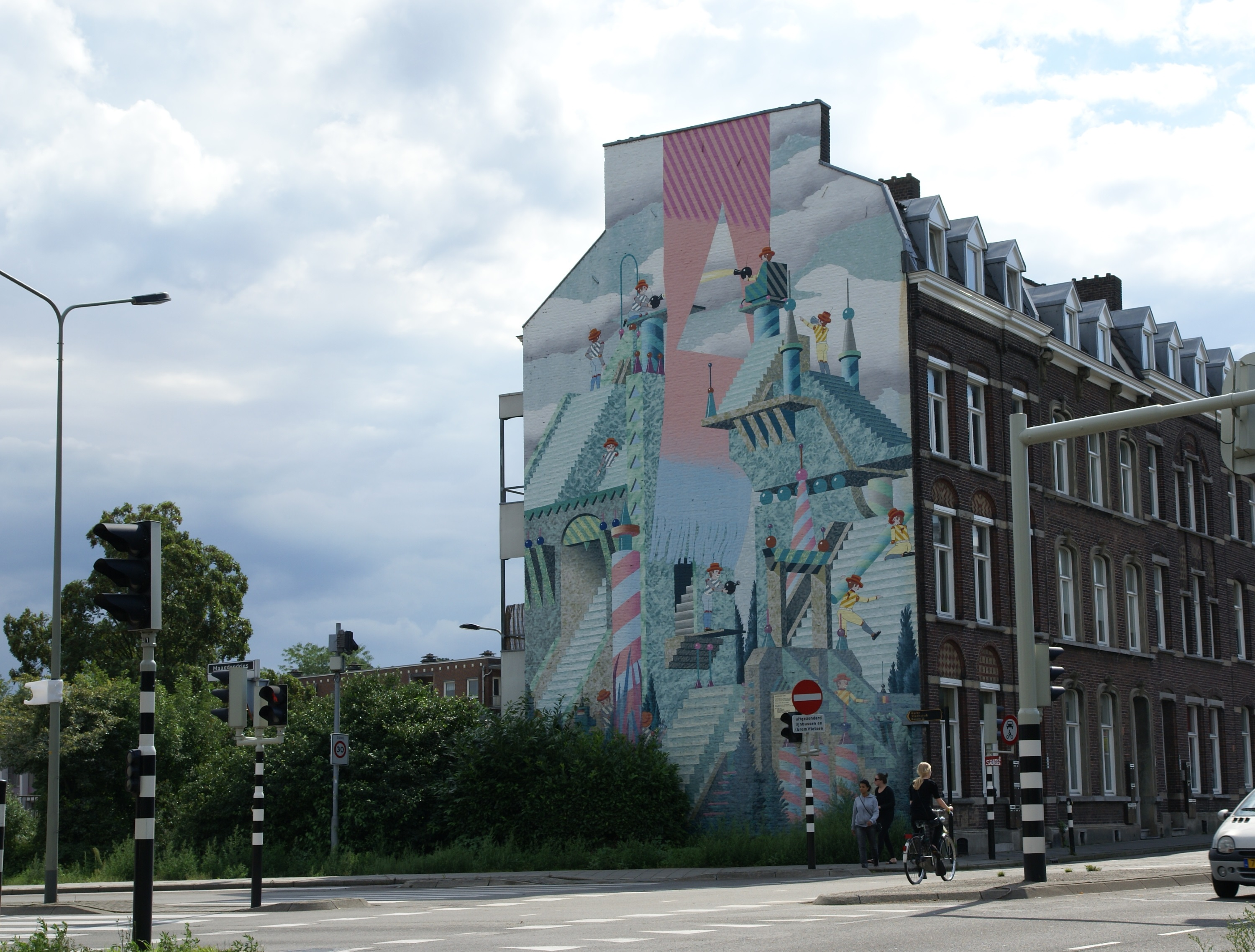 "Grenzenloos samenwerken" (Working together without boundaries) - mural art by Eddie van Hoef, 1991. Corner Maagdendries/Statensingel, Maastricht, The Netherlands.